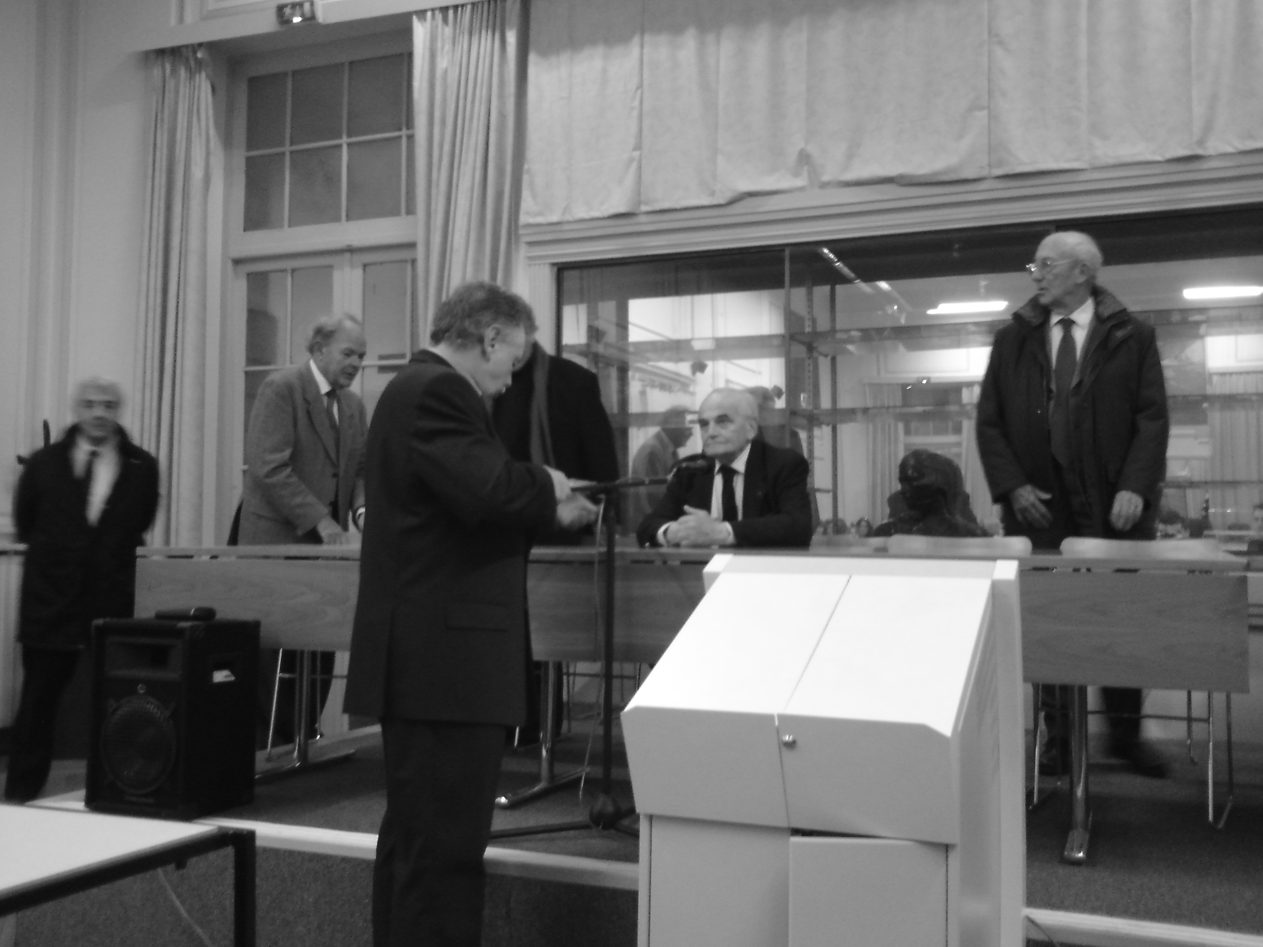 Michel Déon, a french author from the prestigious Académie Française visiting visiting his former high school, Lycée Massena in Nice, Nov 28th